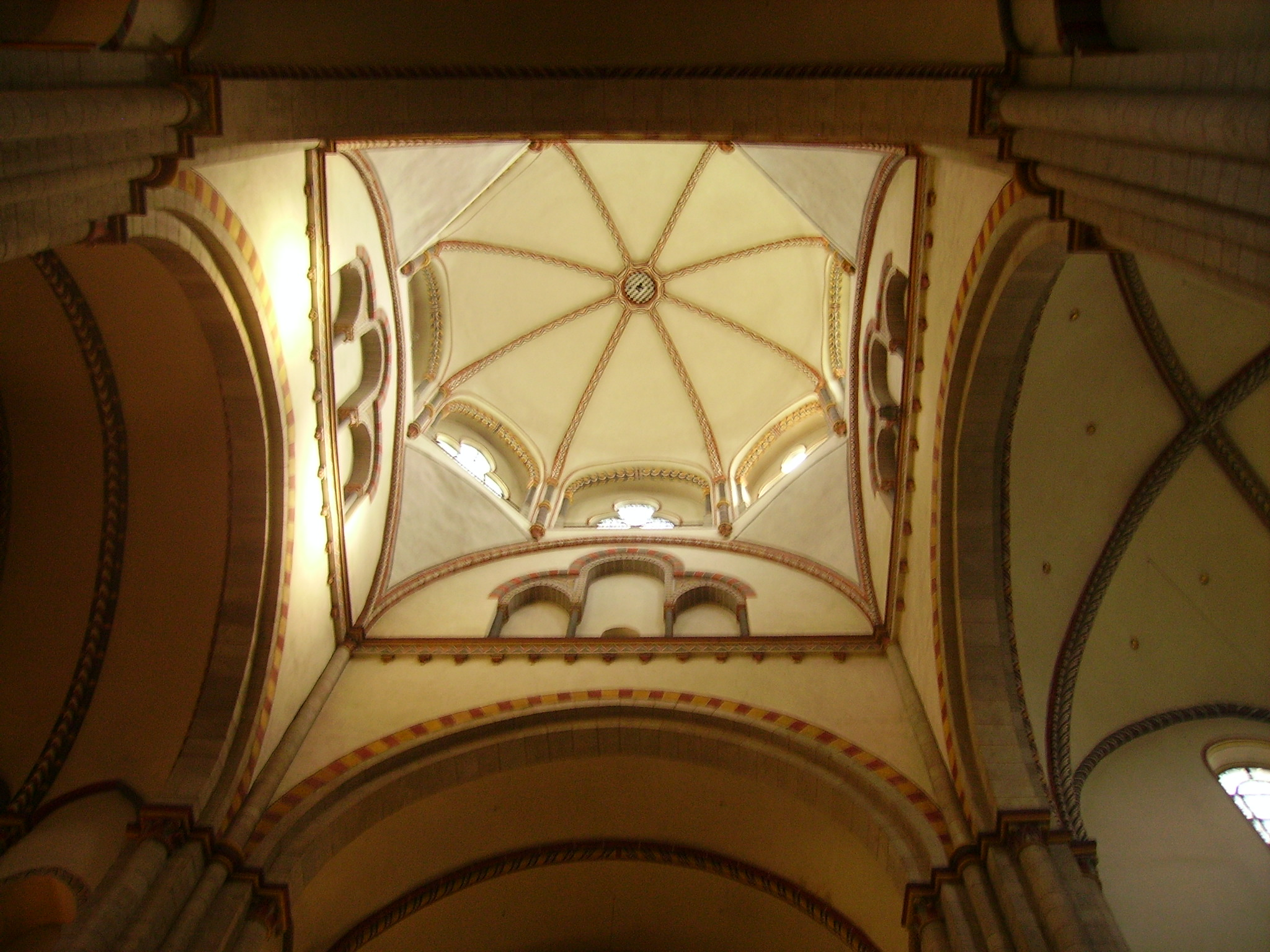 Crossing Dome of the Minster/Basilica St. Quirinus, Neuss